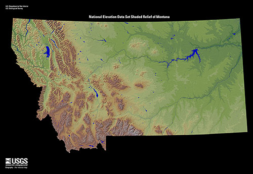 Shaded relief map of the U.S. state of Montana. From the United States Geological Survey.